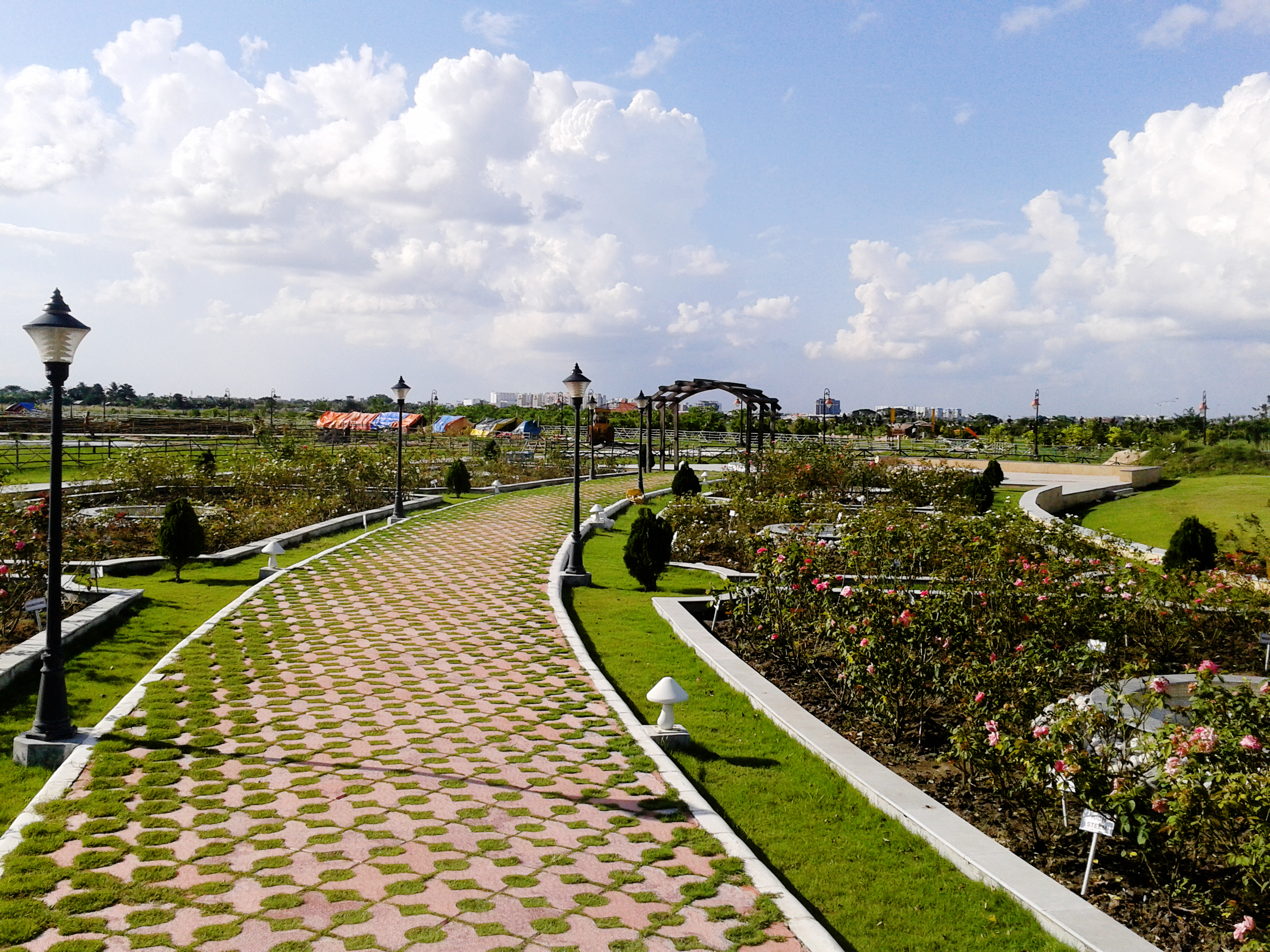 cobblestone walkway passing through the rose garden